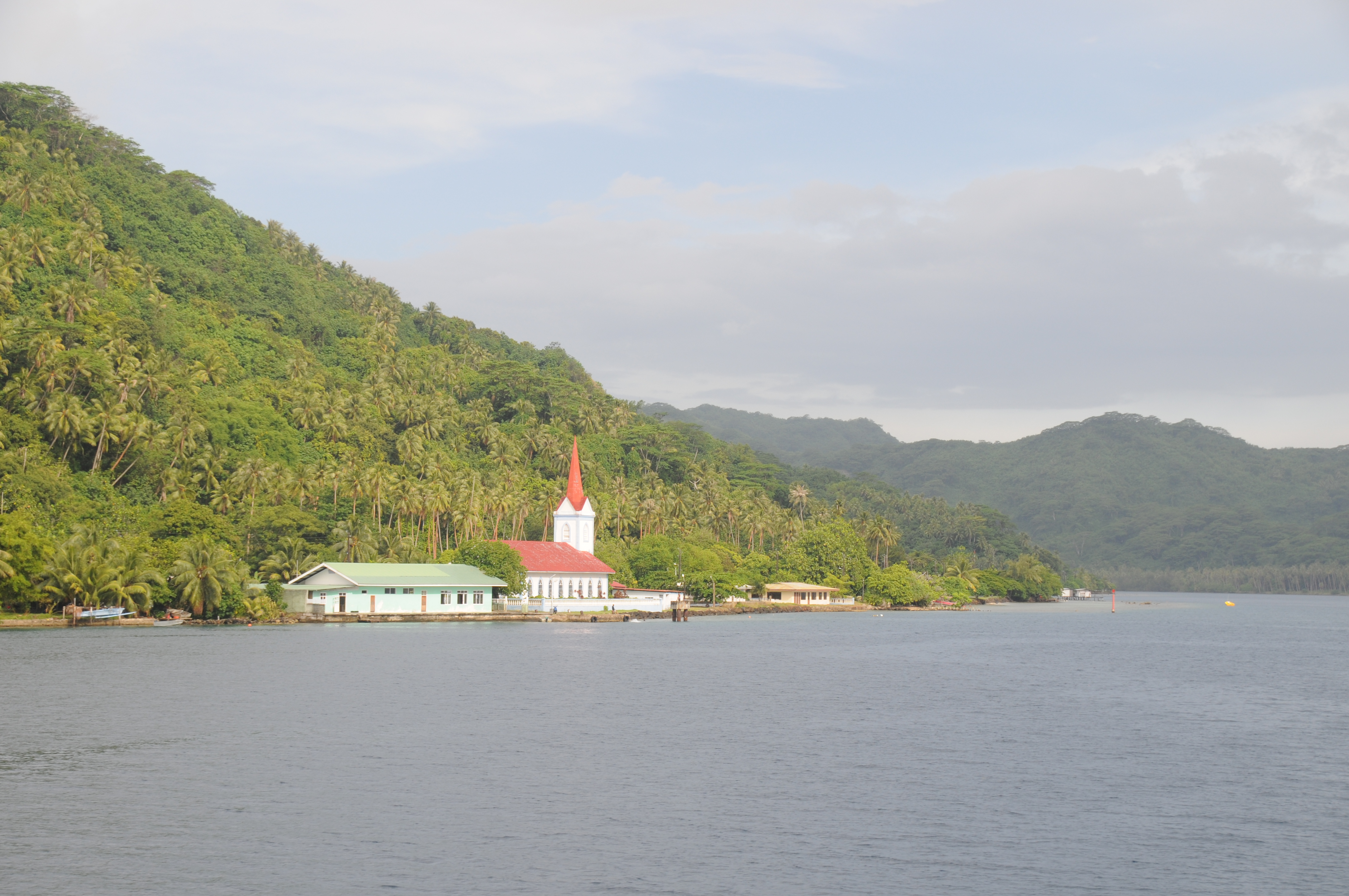 Tahaa, church at Tiva on West side